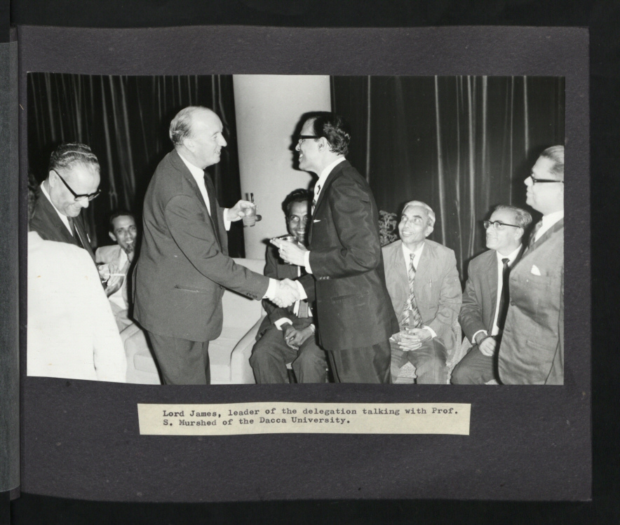 Lord James, leader of the delegation talking with Prof. S. Murshed of the University of Dhaka